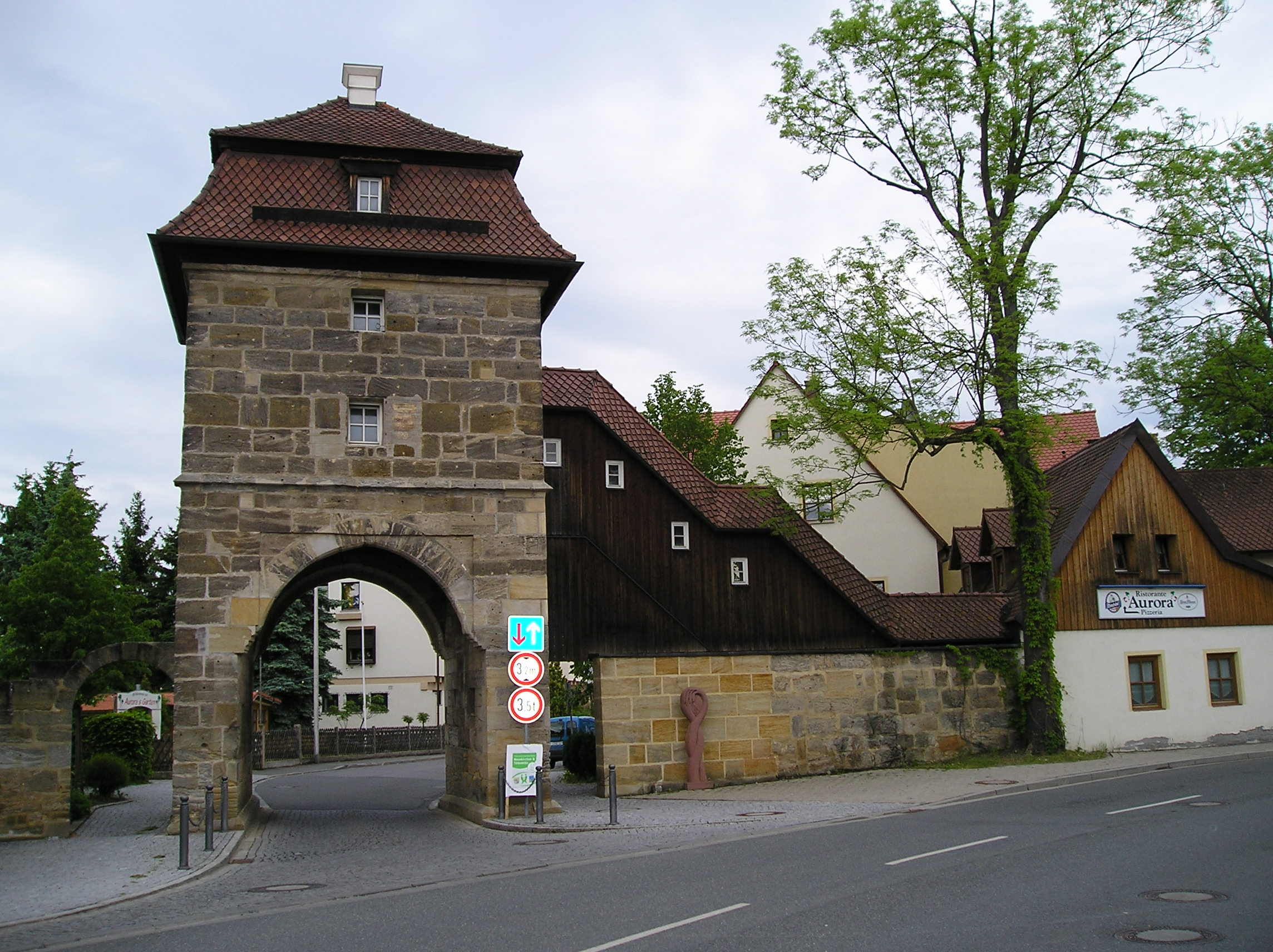 Erlanger Tor (town gate) of Neunkirchen am Brand (Bavaria, Germany) viewed from outside the old town.